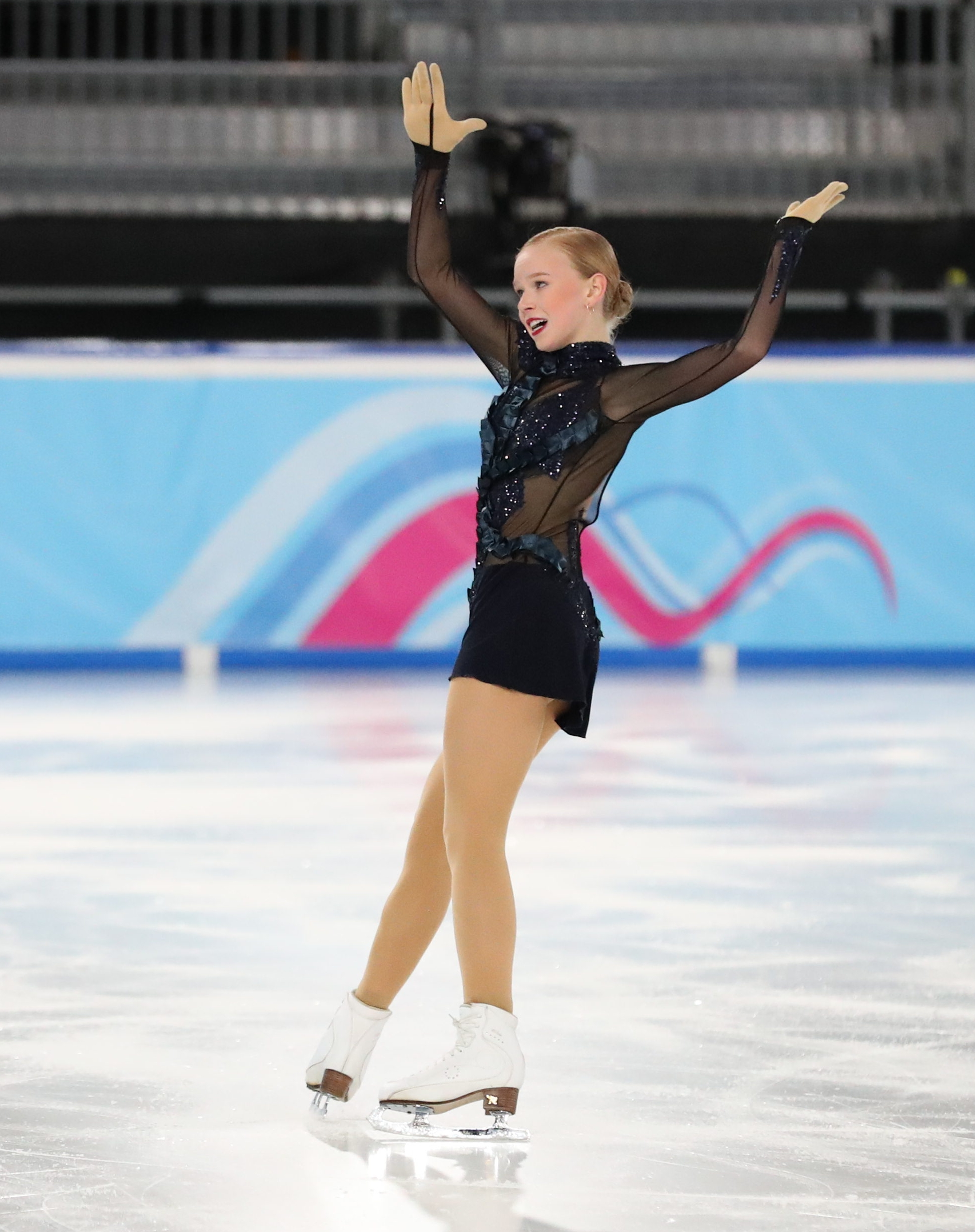 Women Single Figure Skating Short Program at the 2020 Winter Youth Olympics in Lausanne